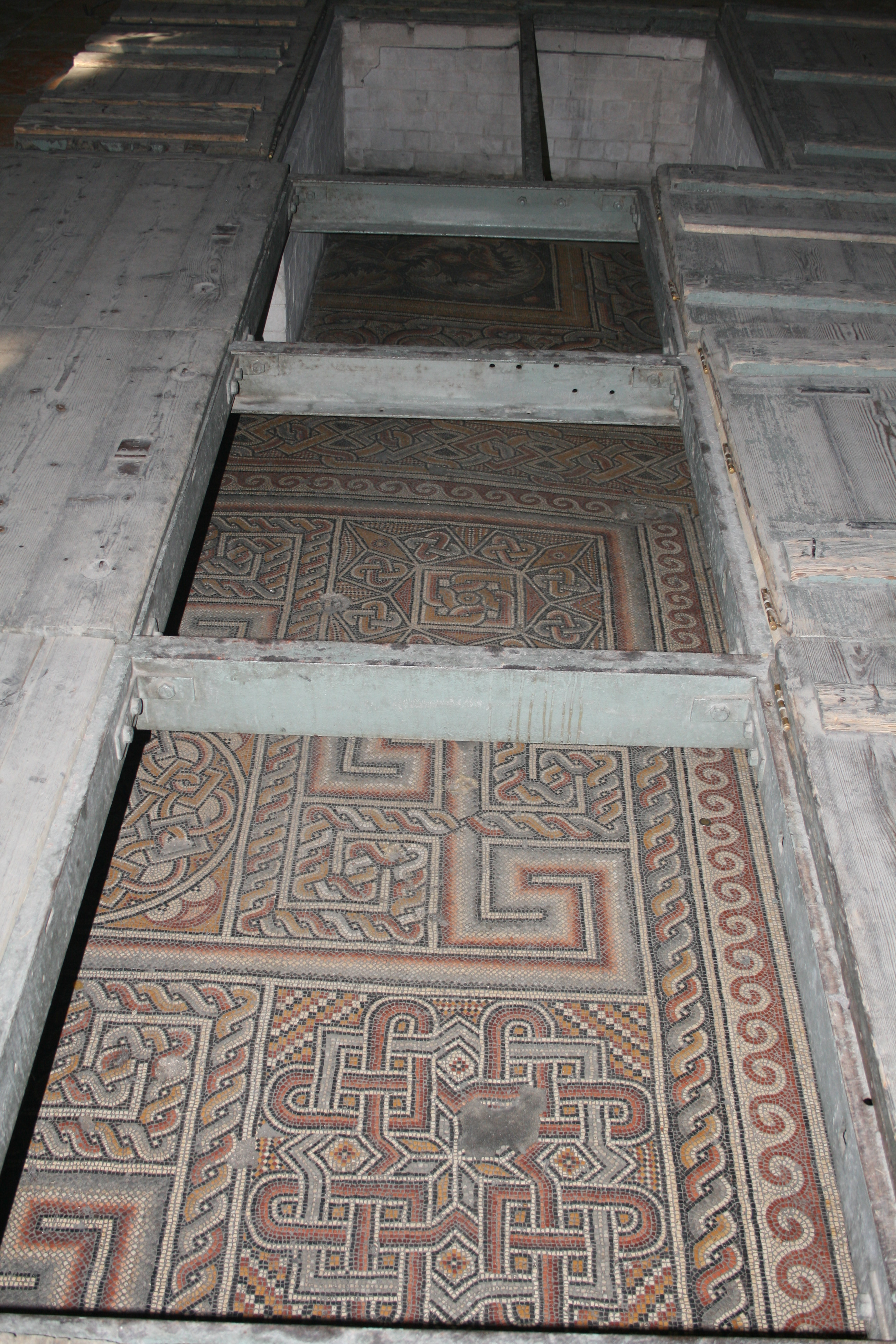 Mosaics of the Church of the Nativity, Bethlehem, Palestine